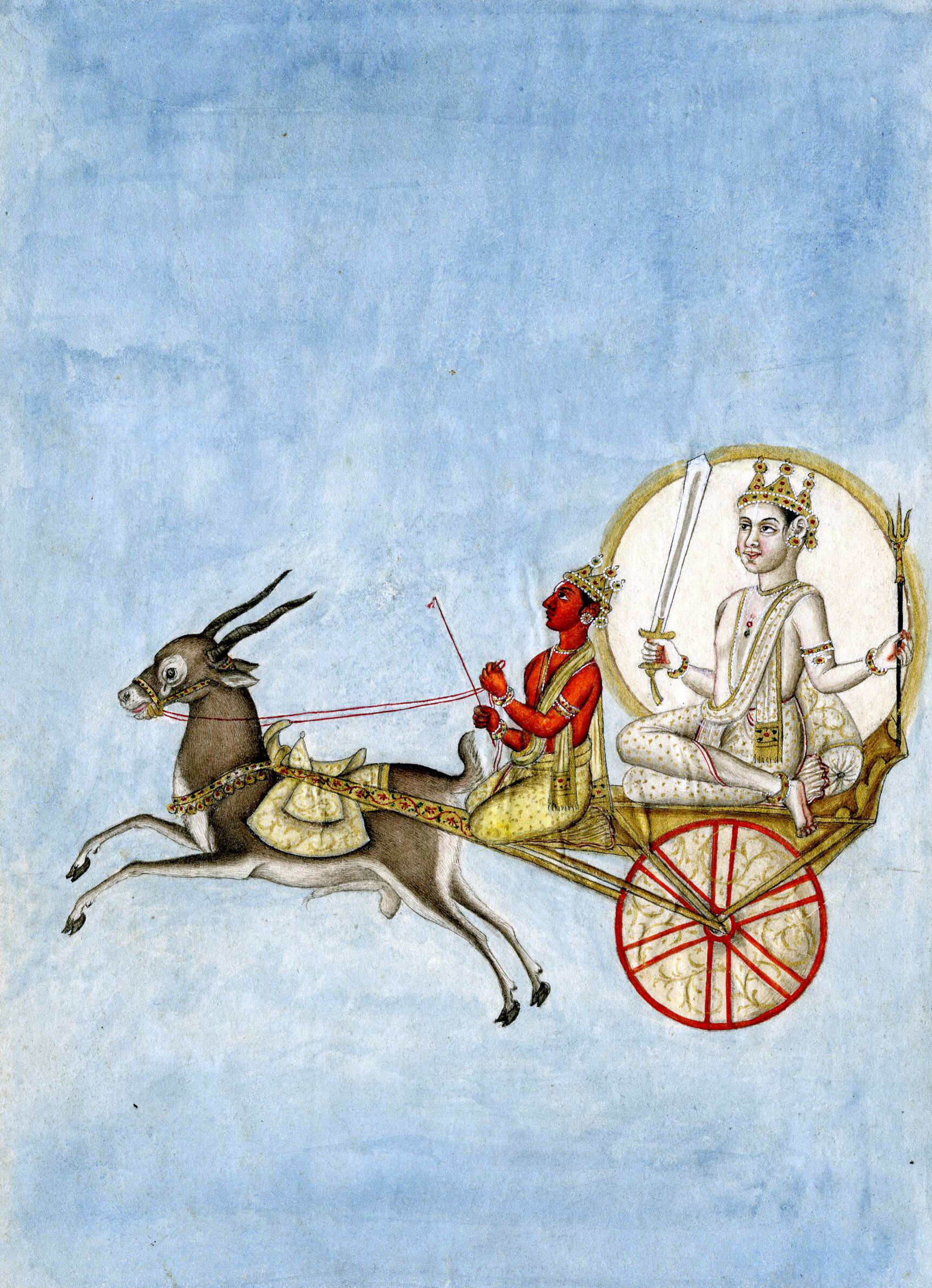 "Figure with sword and trisula, in antelope chariot, with caption, Chandra, the moon."